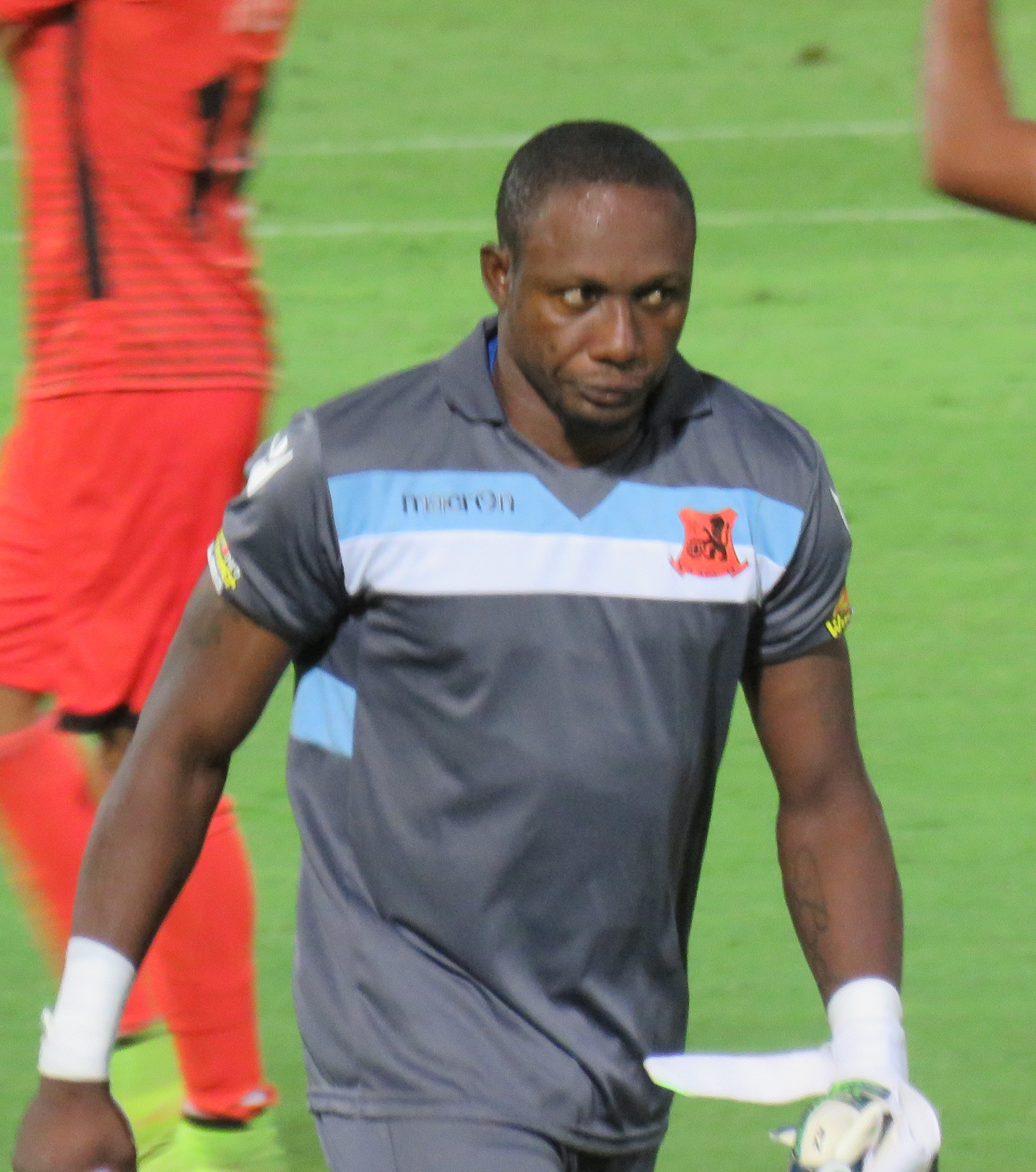 Bnei Yehuda Tel Aviv vs. Hapoel Acre - August 31, 2015